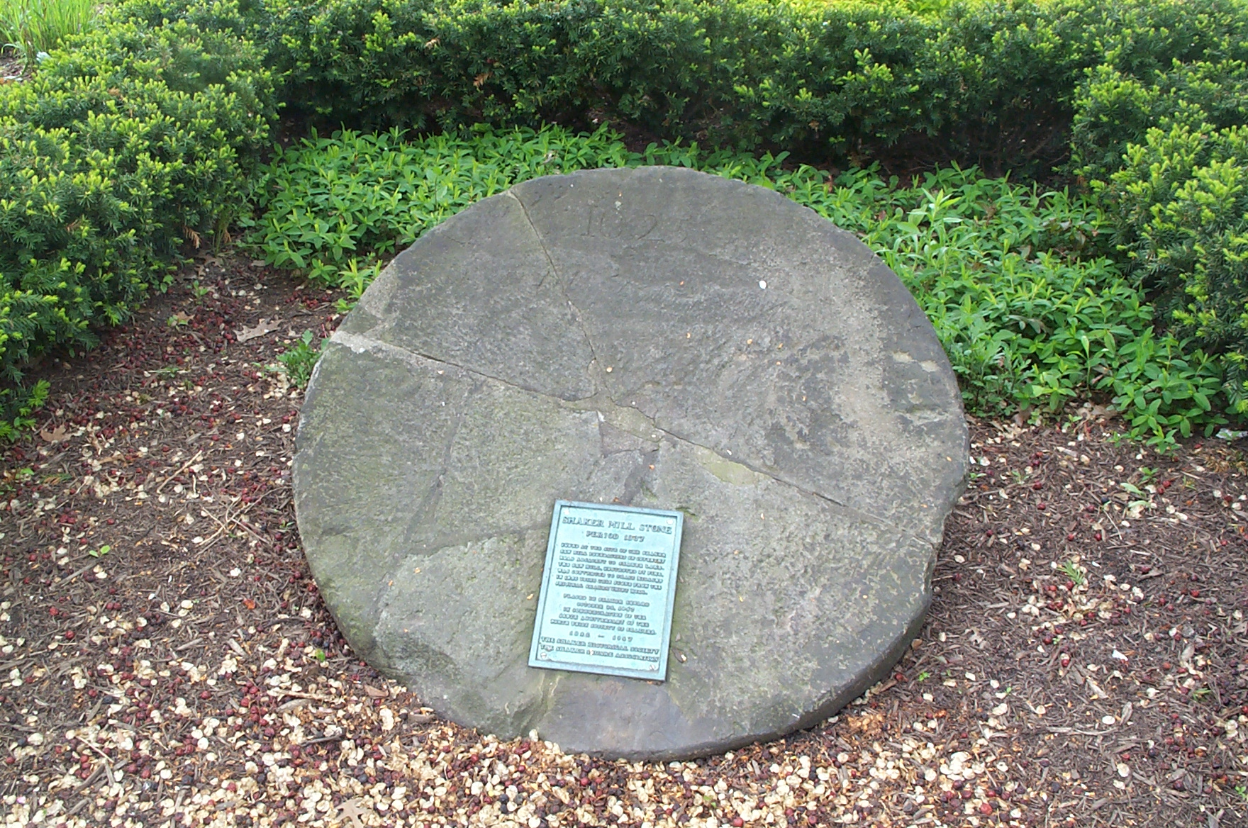 From